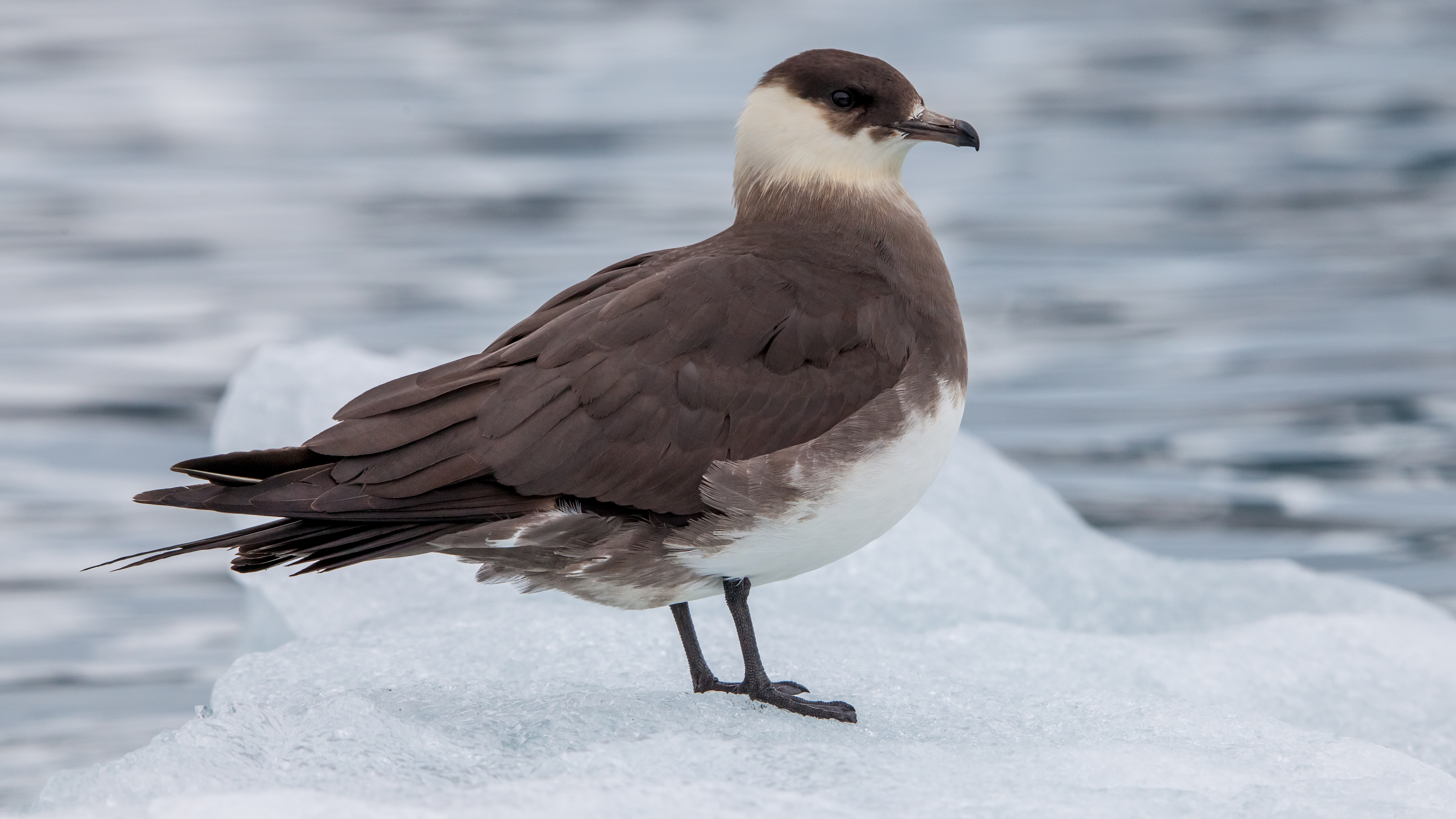 The arctic skua (Stercorarius parasiticus) is the most common skua on the Spitzbergen archipelago. About 1,000 breeding pairs reside on the islands.